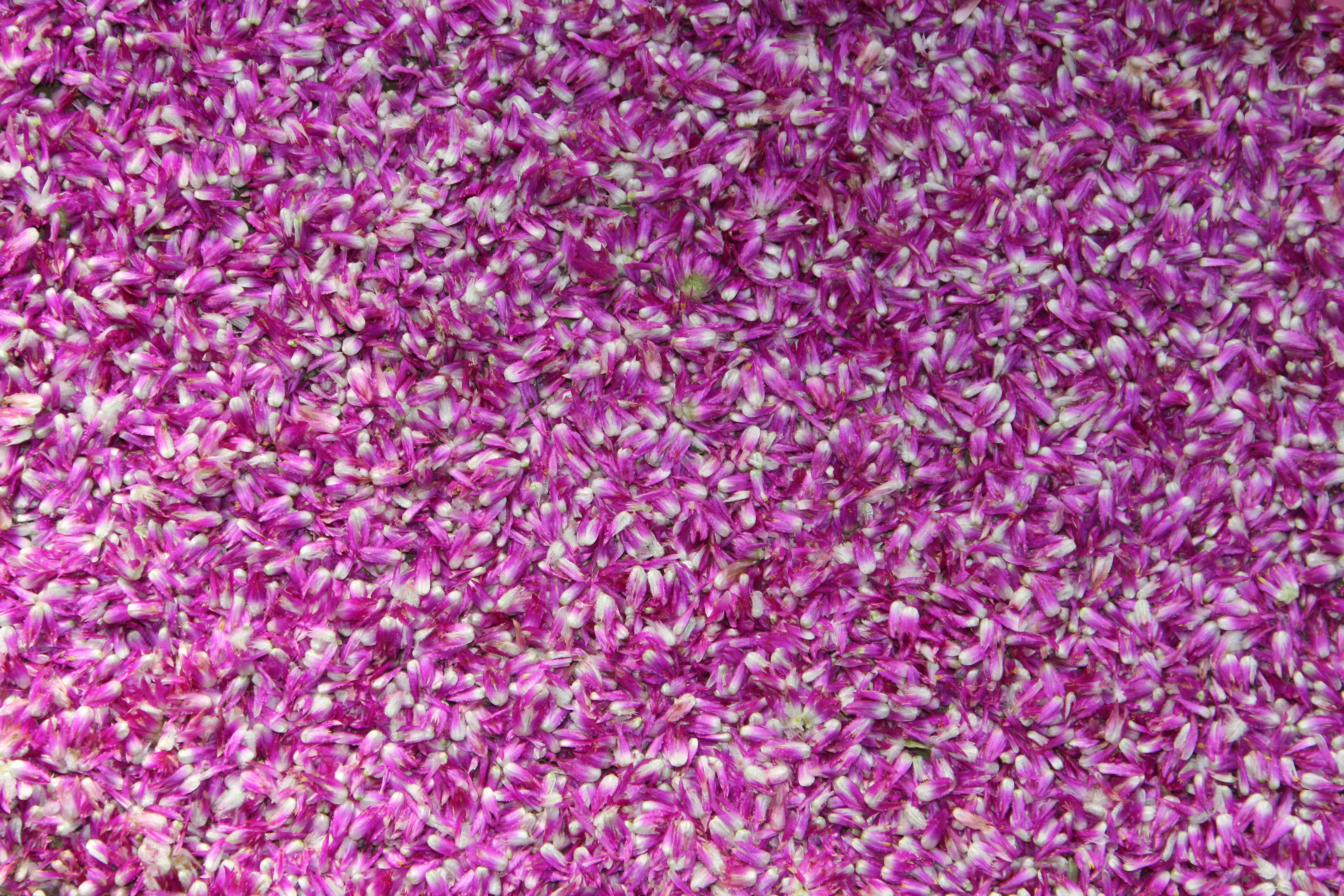 Vaatamalli petals for pookkalam ONAM